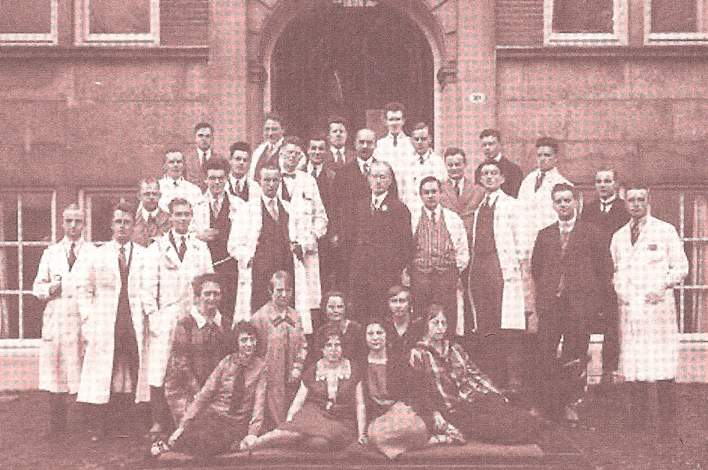 Professor Backer voor zijn laboratorium